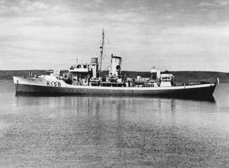 HMCS Chicoutimi